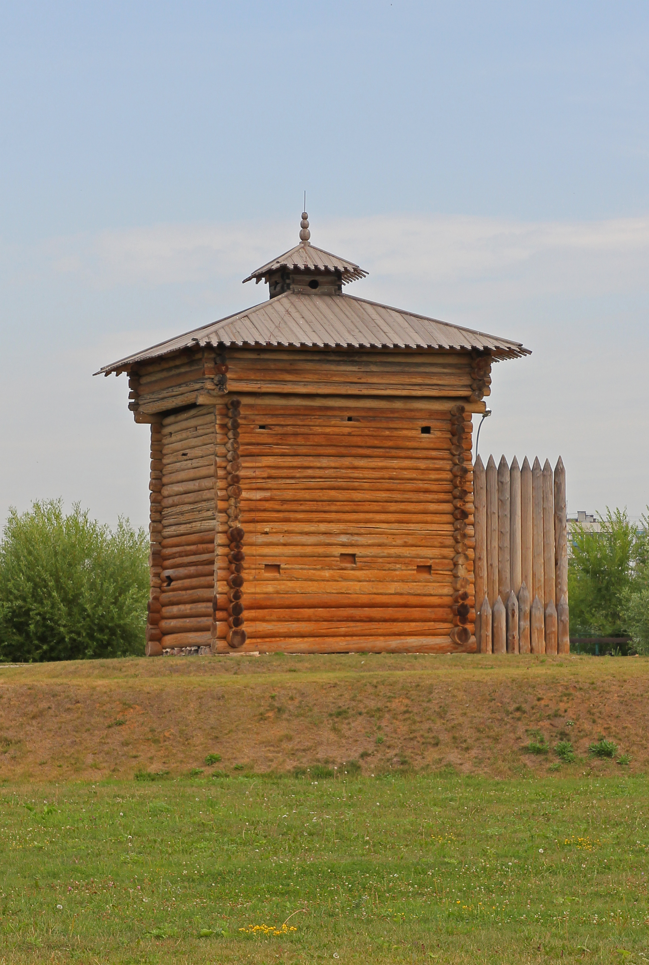 Kolomenskoe Museum Reserve in Moscow. Museum of wooden architecture: Tower of the Bratsk Ostrog.